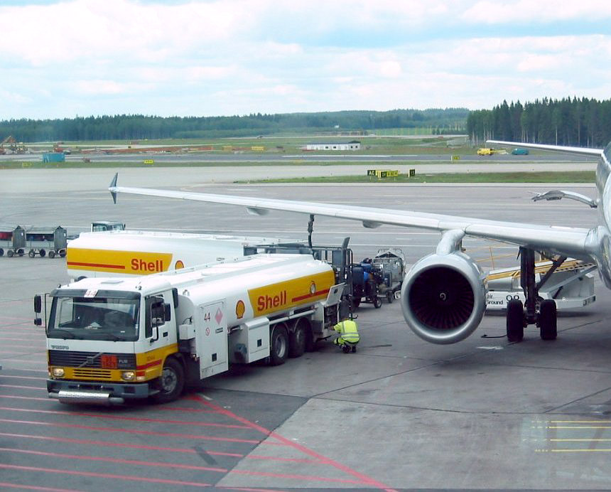 Gas truck at Helsinki-Vantaa Airport, Finland